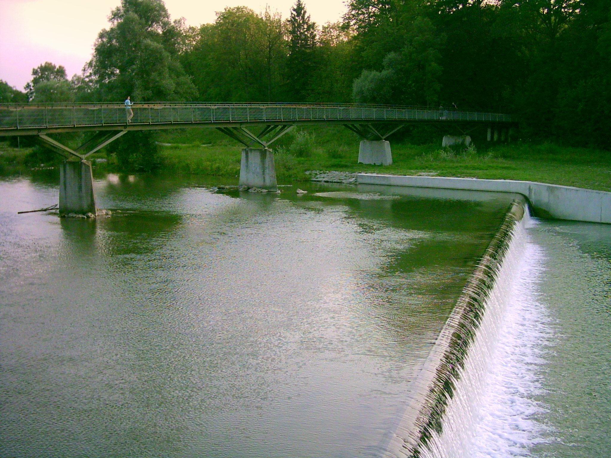 The line of the waterfall's edge through the river marks the way of the tunnel, in which the Auer Mühlbach crosses Isar river bevore it "springs" near Marienklause south of Tierpark Hellabrunn in the southeast of Munich, Bavaria, Germany. 10 m³/s of water are being taken from the Isar-canal and led in to the eastern banks where the Auer Muehlbach starts its six km journey through the eastern suburbs.